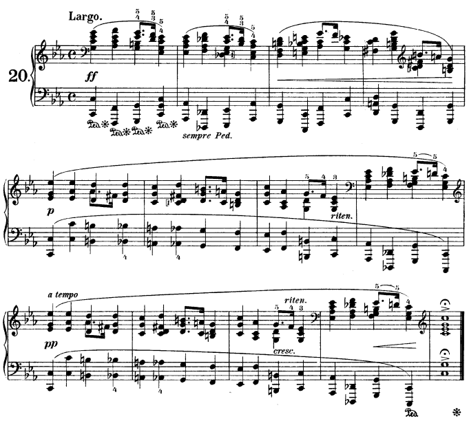 Chopin's Prelude, Op. 28, No. 20 in C minor, in its entirety.